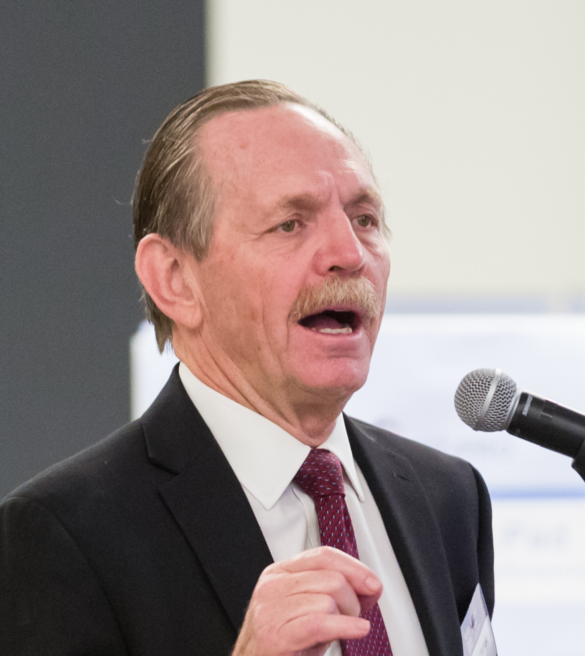 Ronald J. Bartek, co-founder and founding president of the Friedreich's Ataxia Research Alliance, asks a question about how to provide patients with educational resources at NCATS Day: Partnering with Patients for Smarter Science on June 30, 2017. Credit: Daniel Soñé Photography, LLC